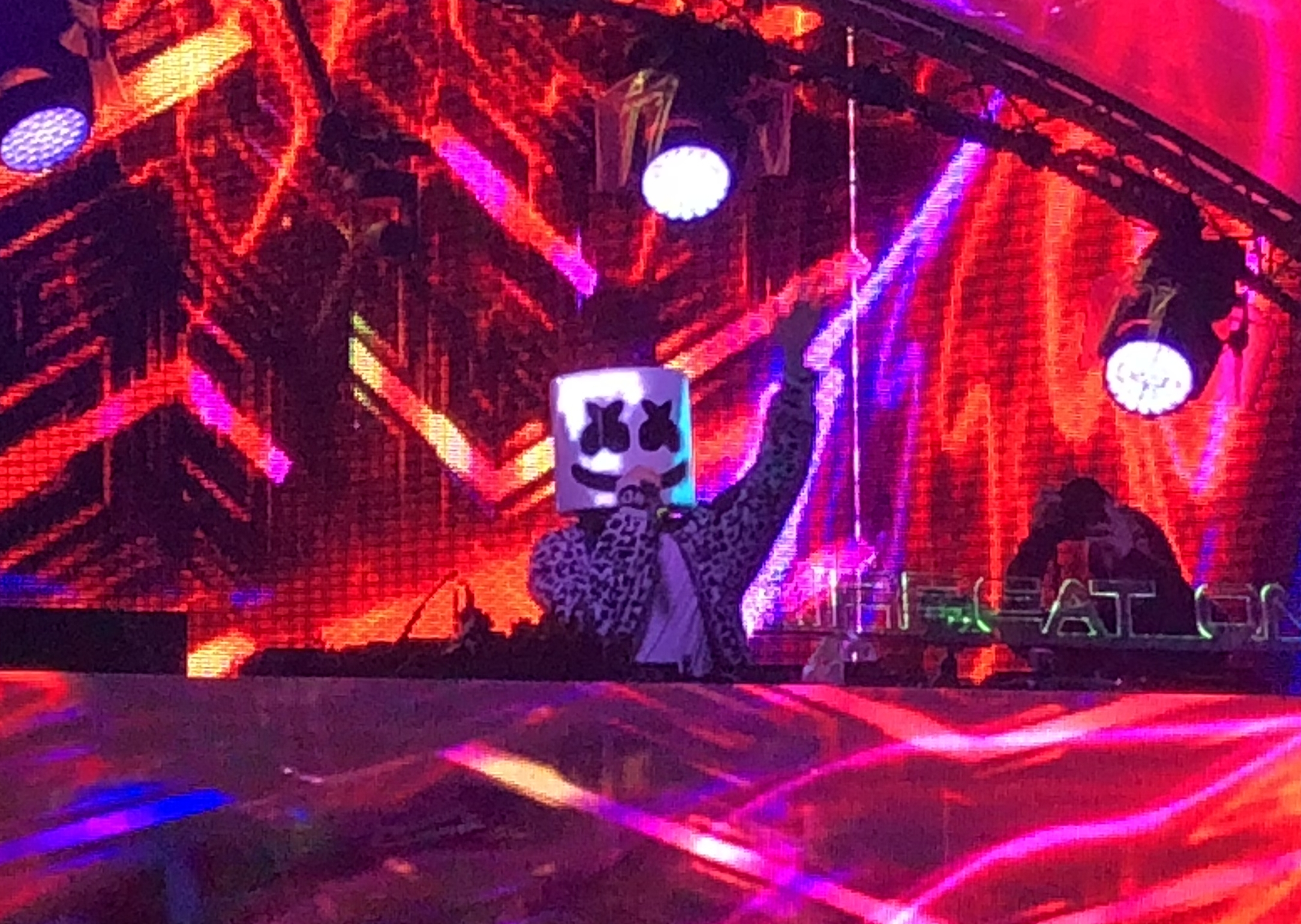 Marshmello playing live at Airbeat One Festival 2018 in Neustadt-Glewe, Germany.